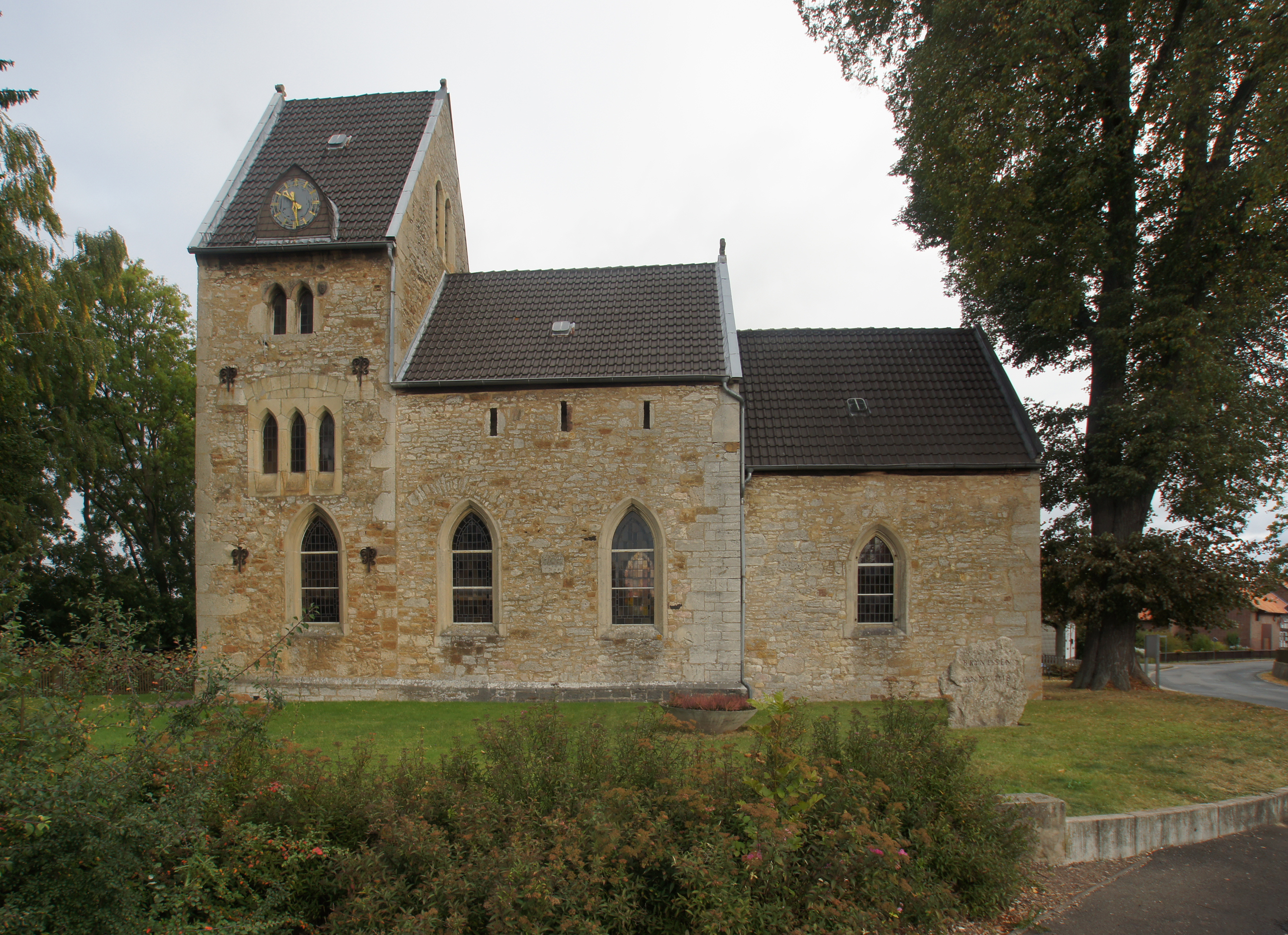 Einbeck (Brunsen), Germany: Saint Martin's Church